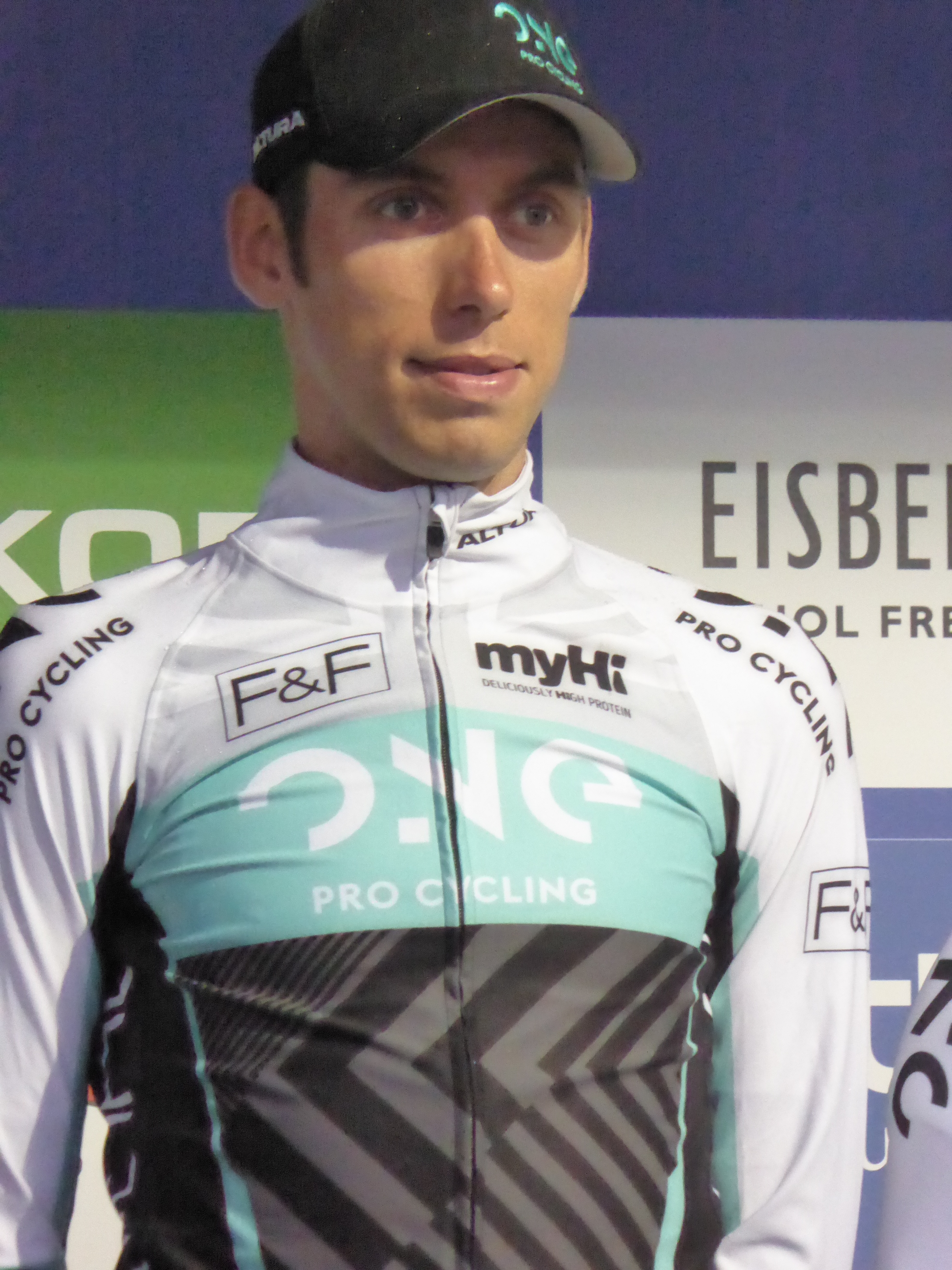 Karol Domagalski (ONE Pro Cycling), pictured at the 2016 Tour of Britain team presentation in Glasgow on 3 September 2016.